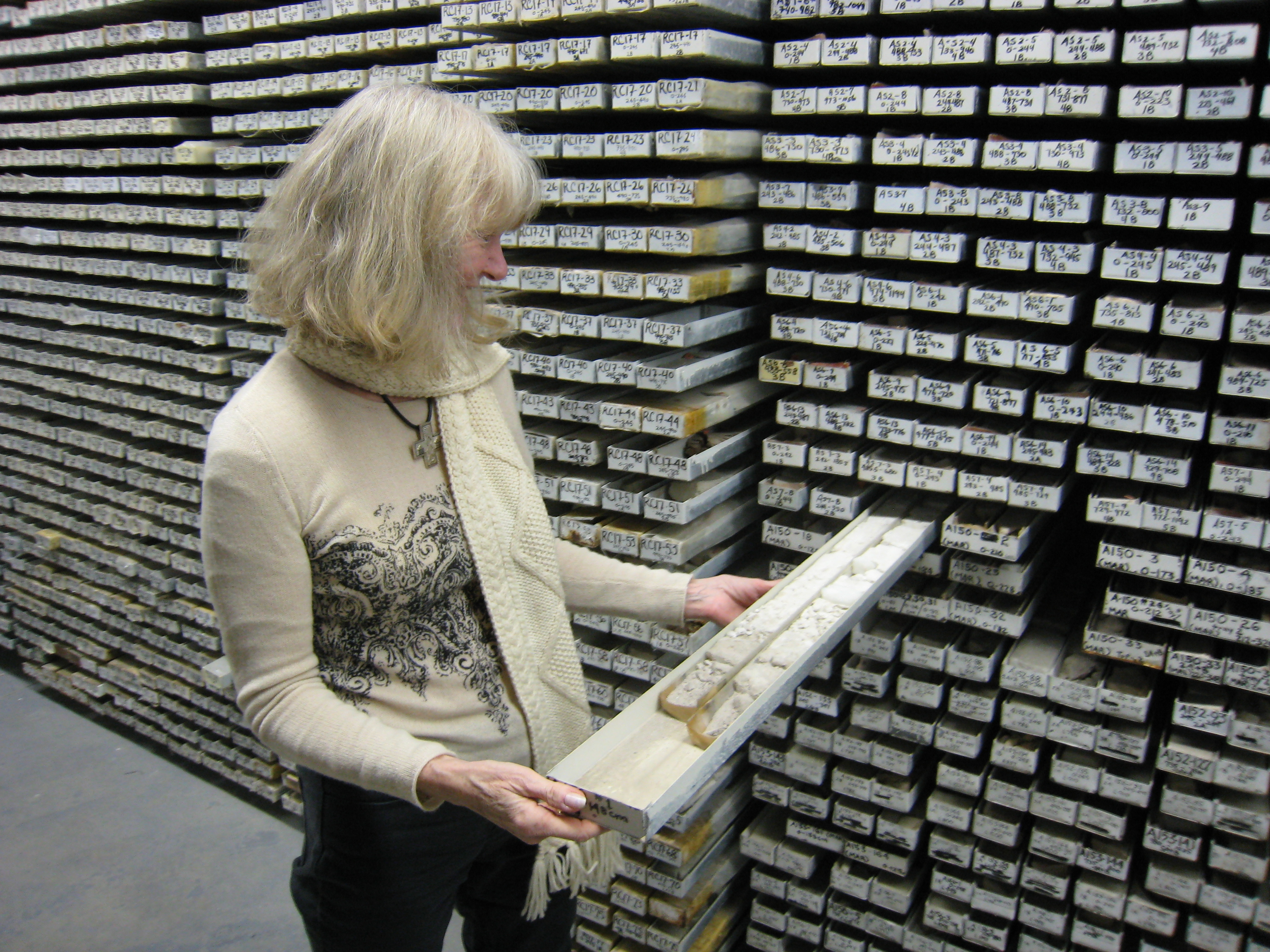 One of the 13,000+ physical samples housed in the Lamont Deep Sea Sample Repository at the Lamont-Doherty Earth Observatory.